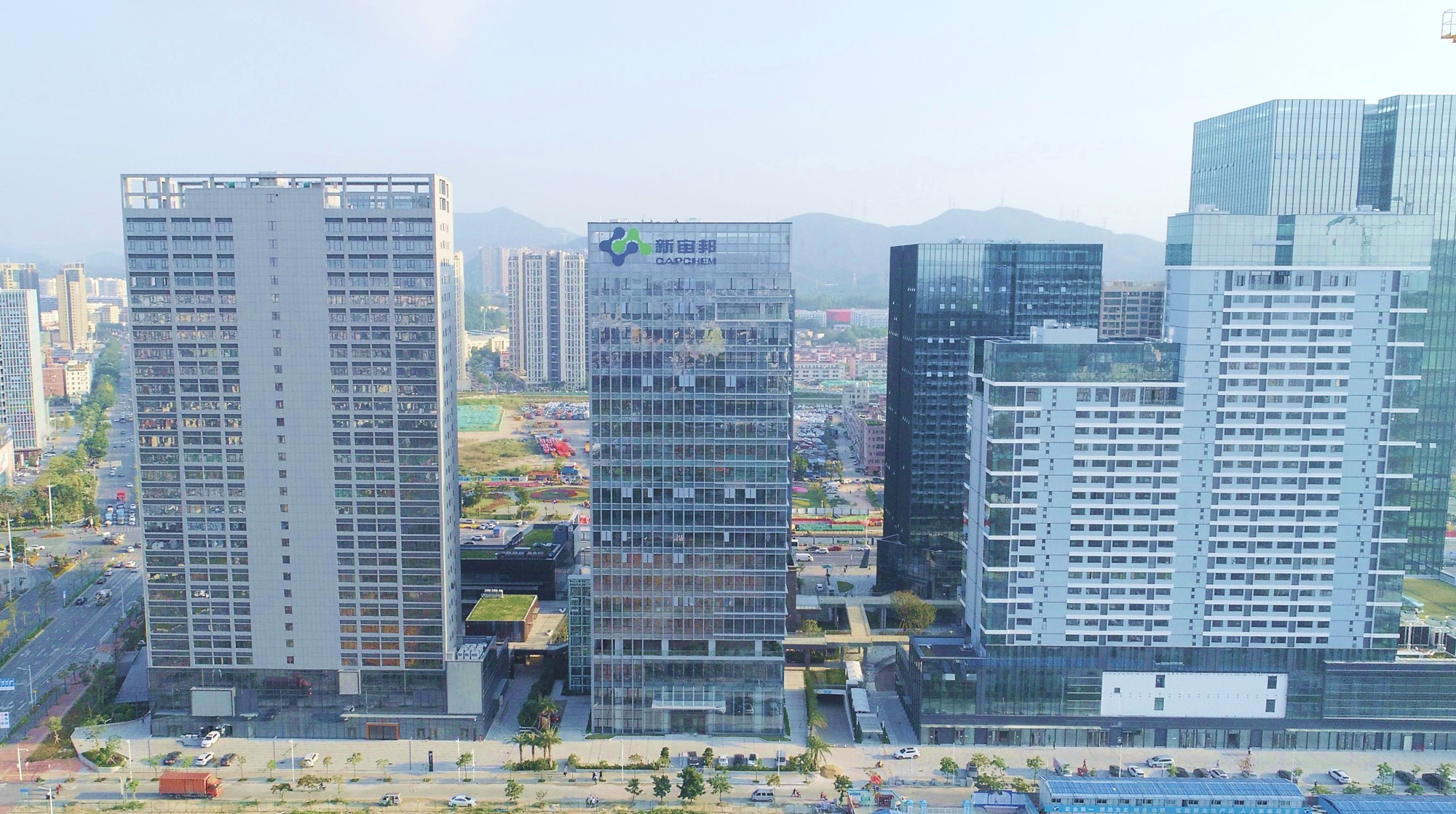 Capchem Plaza is currently the headquarter of Capchem group and officially came into use in March 2019.